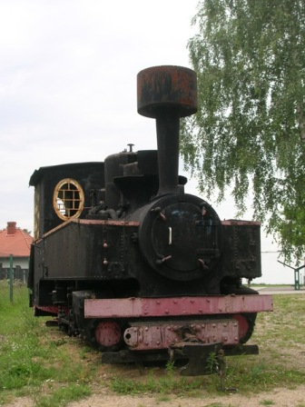 Narrow gauge locomotive Tx 200, Brigadelok (HF) class), as a monument on the Hajnówka Wąskotorowa station, Poland. Built by Henschel, 1918, factory no. 15959. The locomotive was used by the Germans to transport wood from the Białowieża Forest.